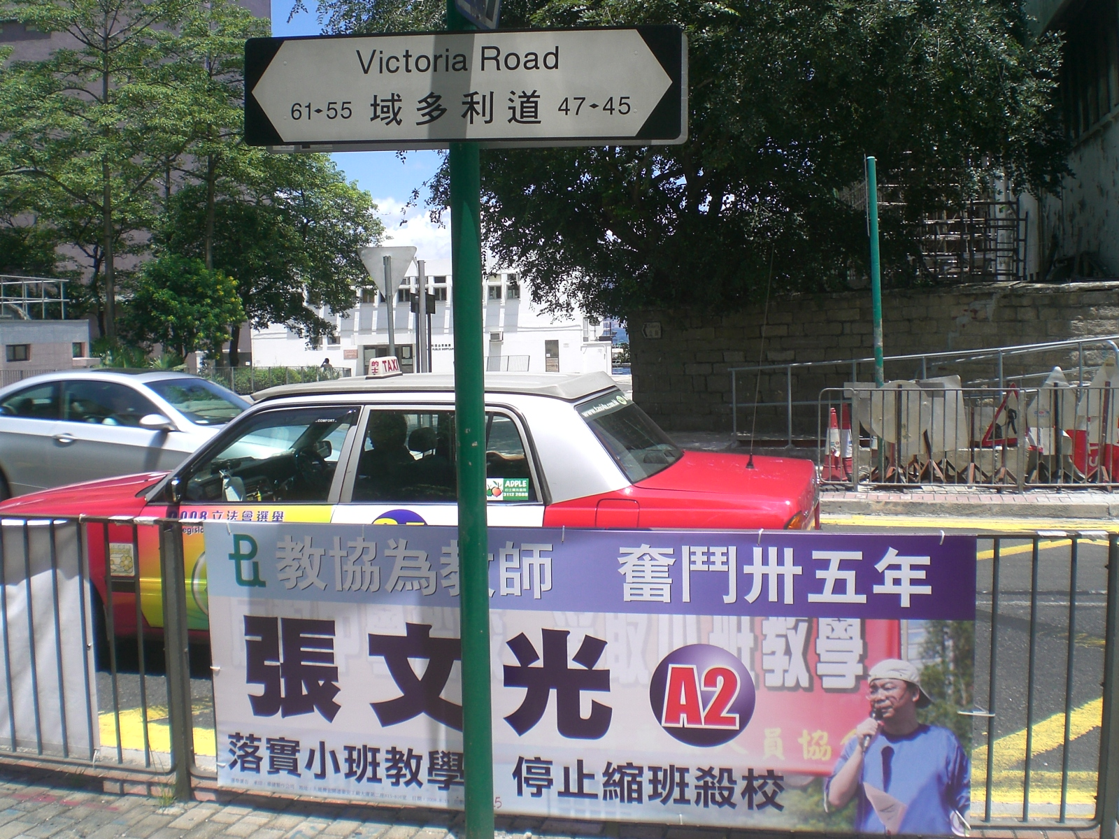 zh:2008年香港立法會選舉在香港島 張文光